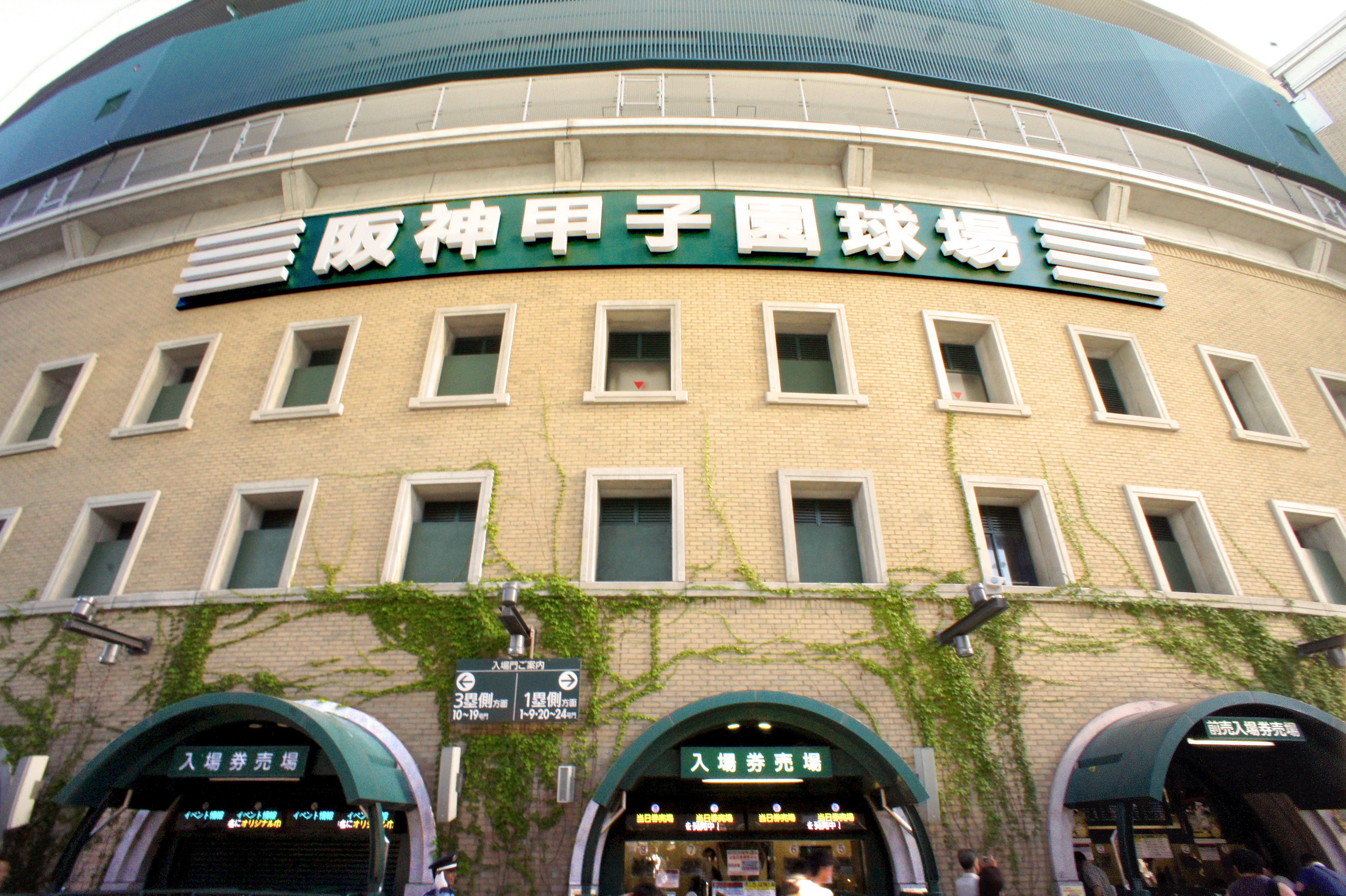 Hanshin Koshien Stadium,1-82 Koshiencho Nishinomiya-city Hyogo Japan.